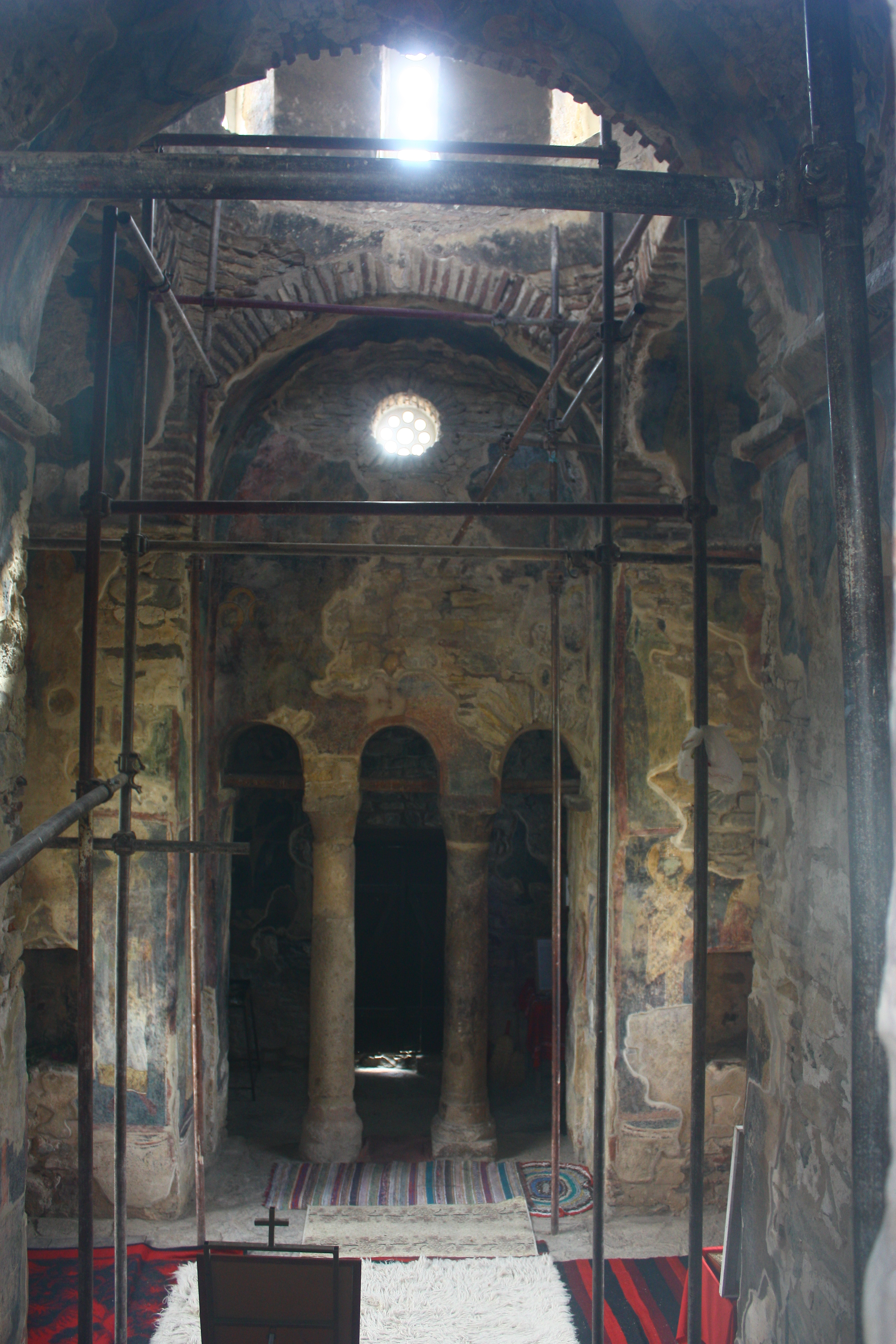 St. George's Church near village of Kozjak, Štip, Macedonia